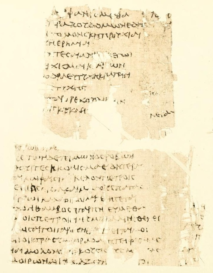 fragment of a tragic